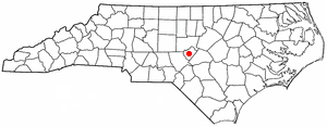 Category:North Carolina Dot Maps